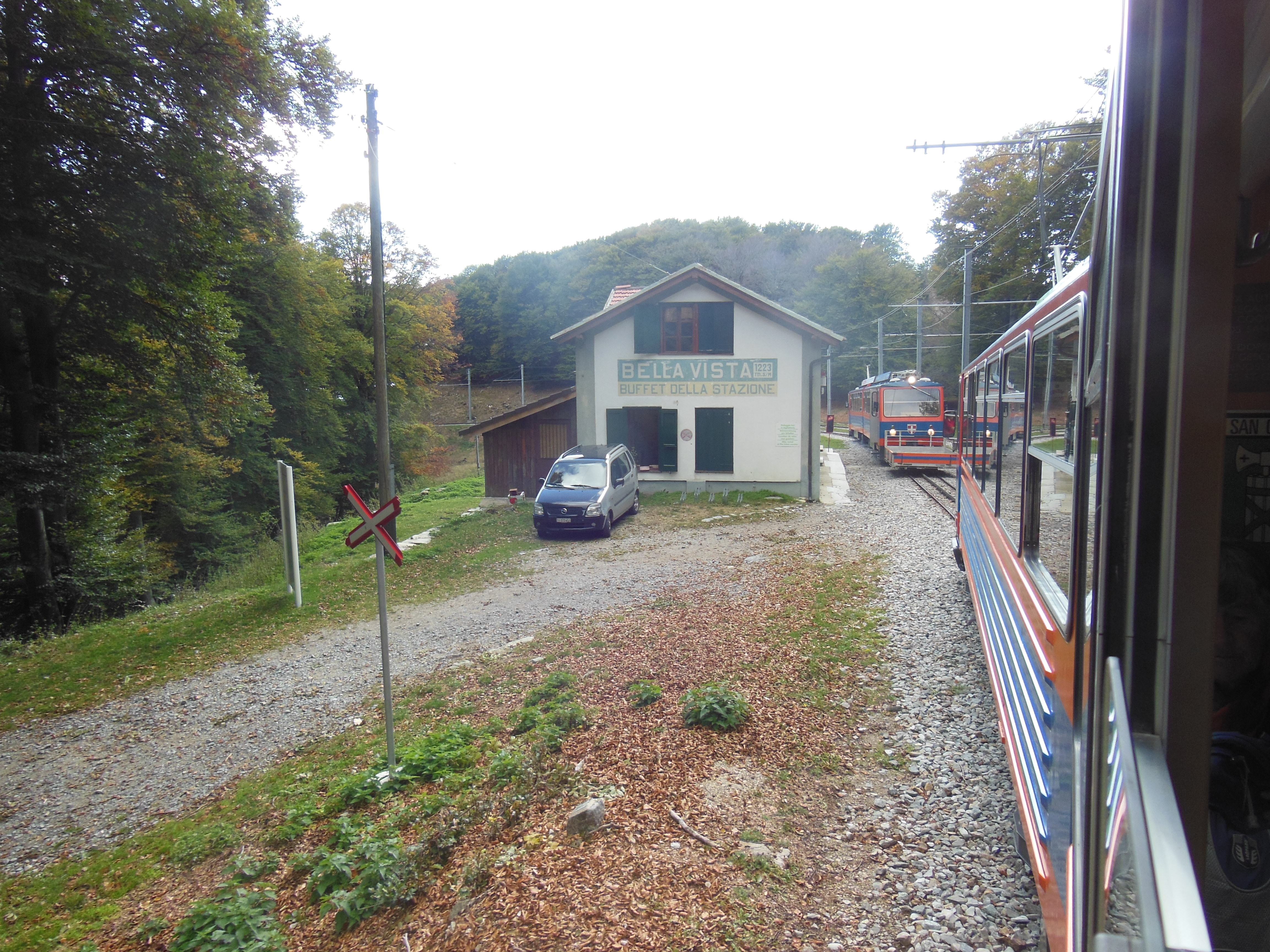 Bellavista railway station on the Monte Generoso Railway. The gravel track to the left is on the site of the terminus of the Bellavista tramway, and the lean-to shed to the left of the car is the former home of that tramway's tramcar. For more information, see Wikipedia article Monte Generoso Railway.